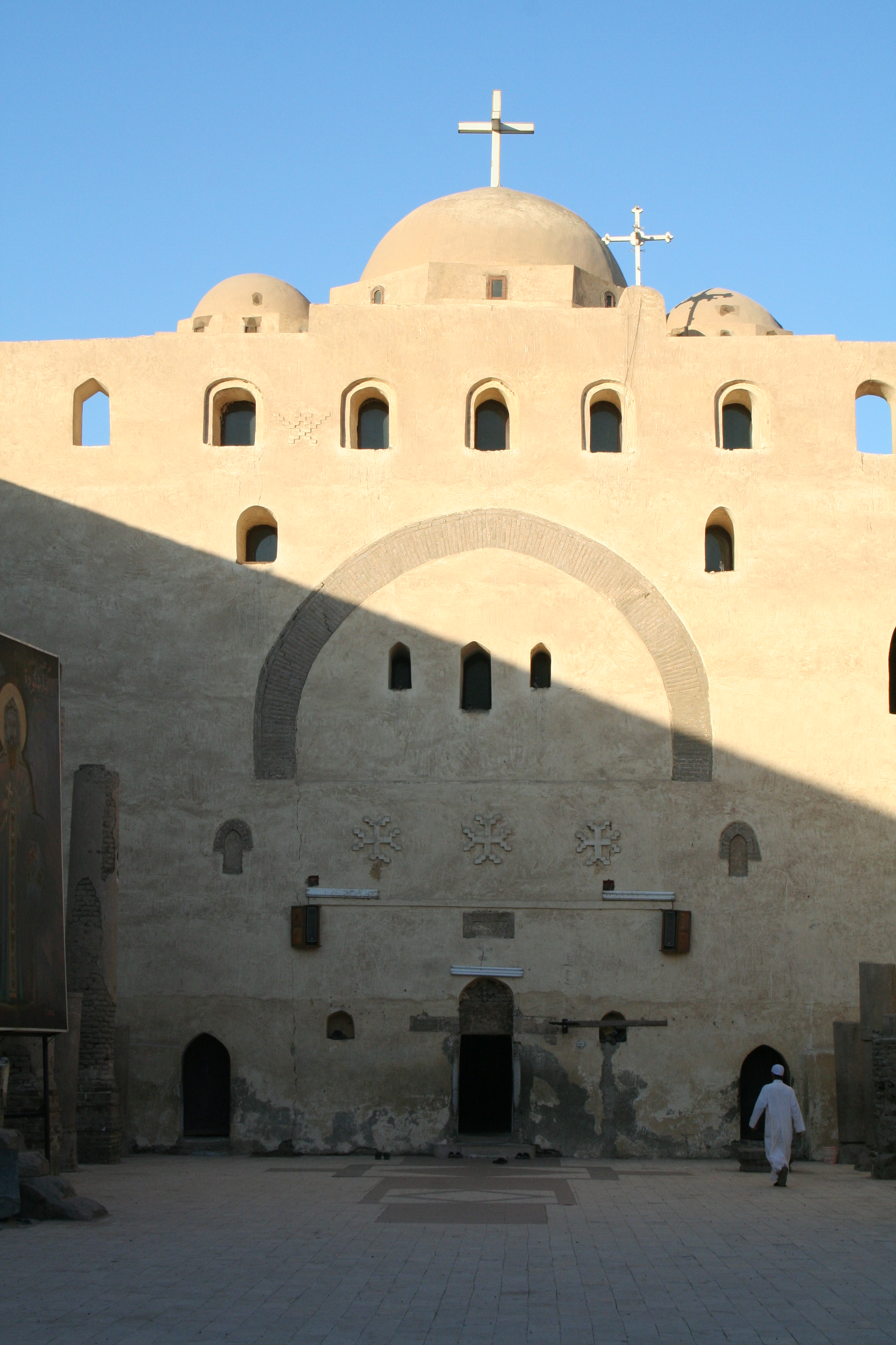 The White Monastery at Sohag